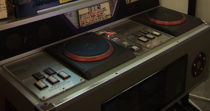 The main controllers from beatmania 5-keys series.